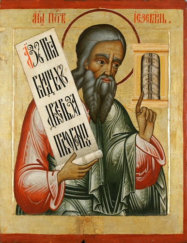 Prophet Ezekiel, Russian icon from first quarter of 18th cen.